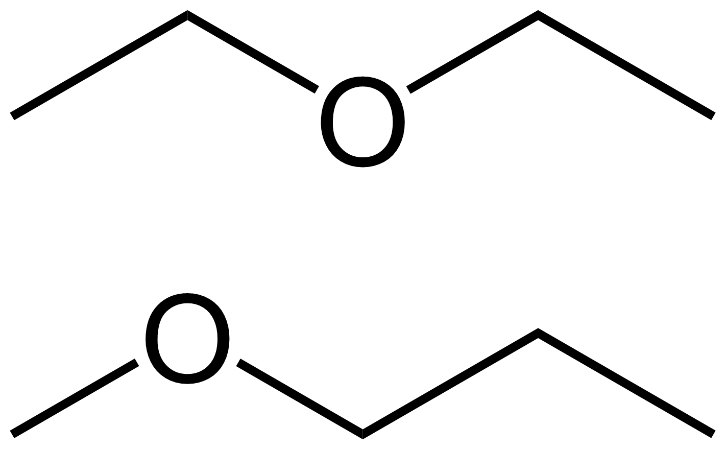 isomers of ethers with the molecuar formula C4H10O.